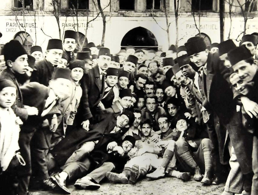 1927-1928 Galatasaray SK